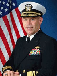 Rear Admiral James M. McGarrah United States Navy Reserve